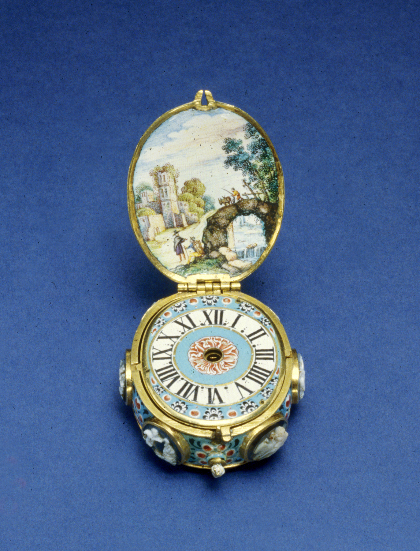 17th-century German Baroque style fob watch.